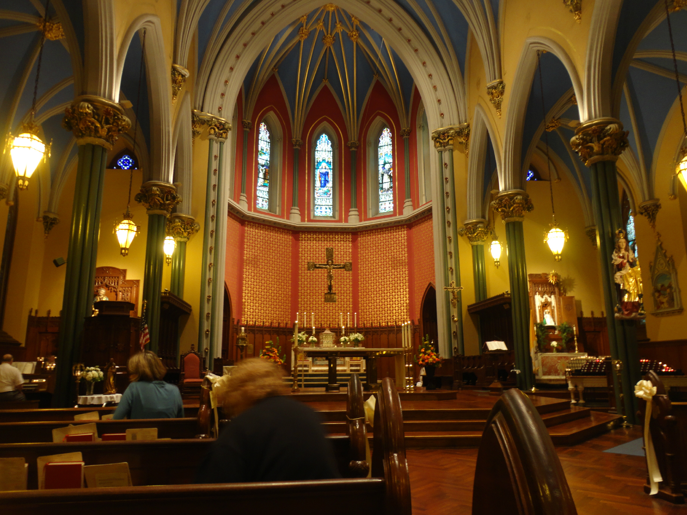 Taken on Sunday October 28th 2012 using my own Sony Camera.